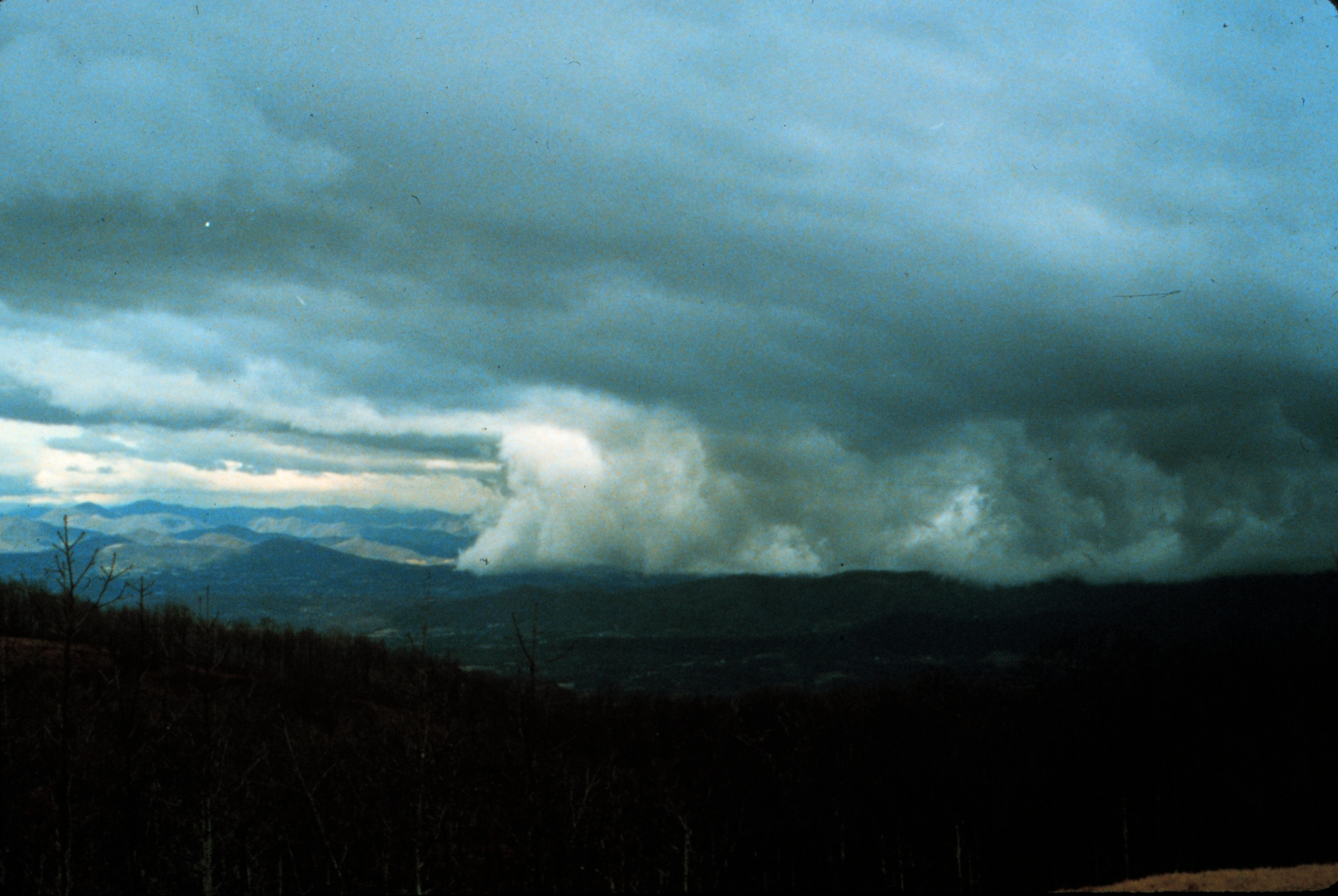 Cloud wall associated with fast moving cold front (Image ID: wea00121, Historic NWS Collection)